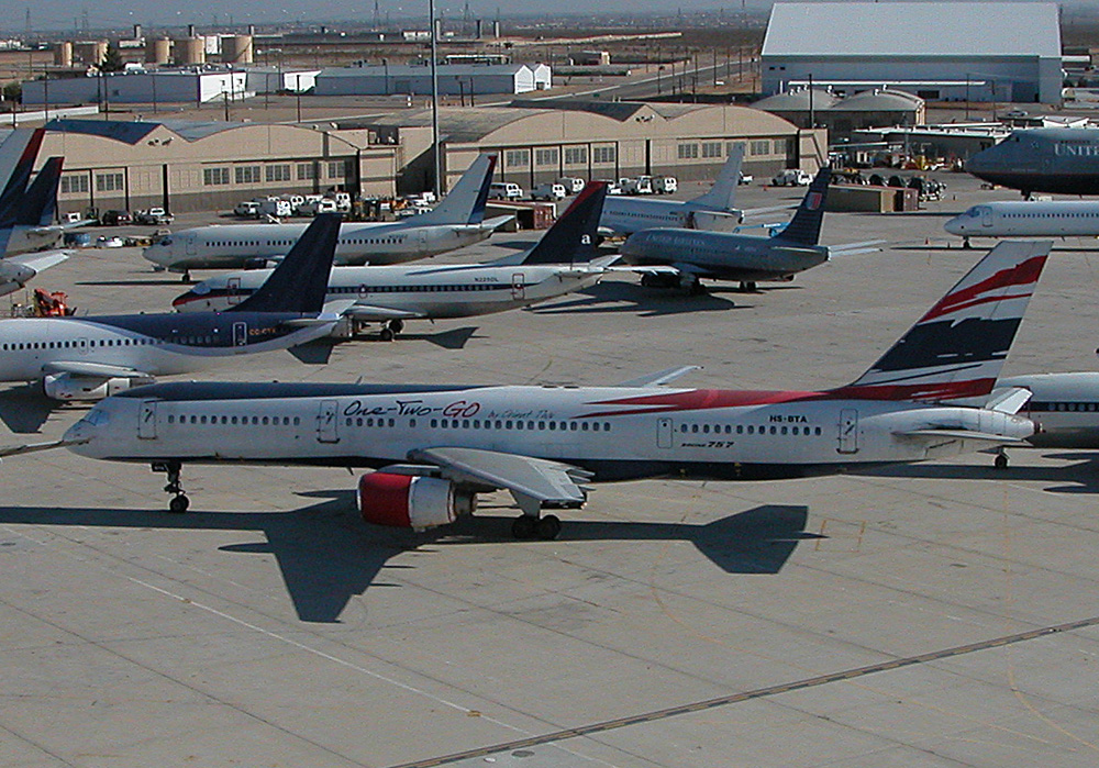 Retired One-Two-GO Boeing 757 in storage at Victorville, California